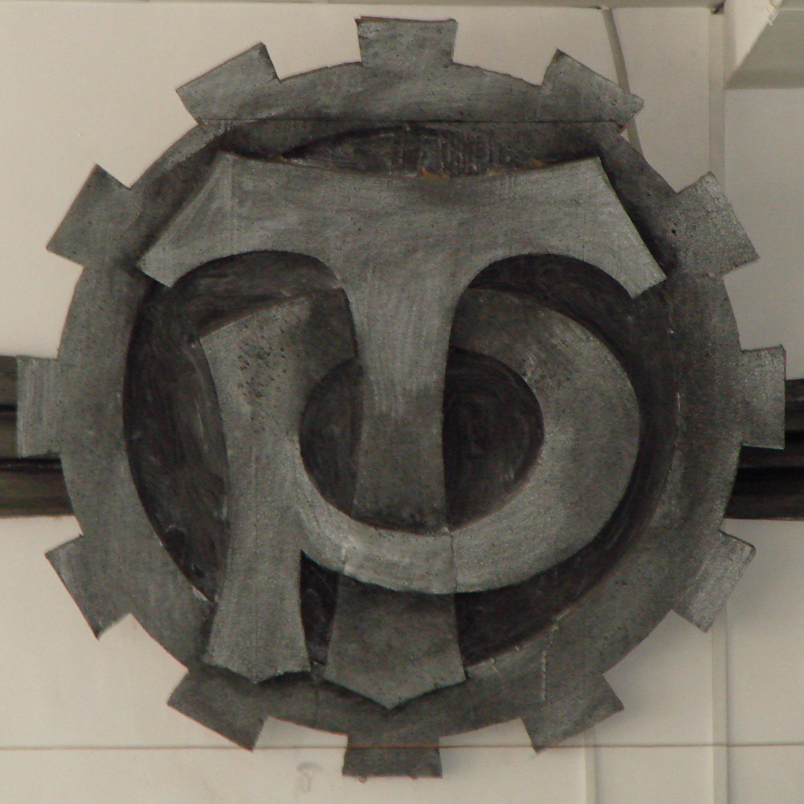 Russia, Vologda PTO museum